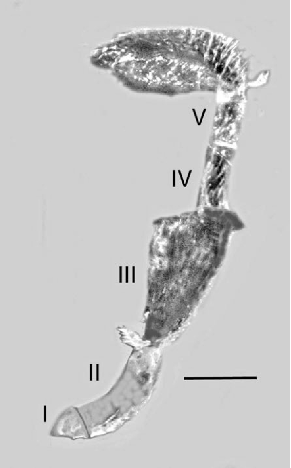 Thallus of Spheciophila adercia in Myanmar amber with surrounding material (including extended appendages) removed.I=Basal cell; II=Suprabasal cell; III=Terminal cell; IV and V=Additional stalk cellsBar=90 µm